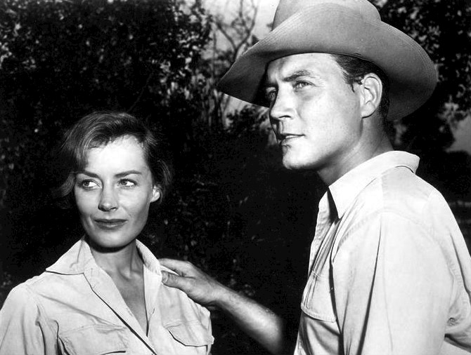 Publicity photo of Roger Smith and Victoria Shaw from the television program 77 Sunset Strip. At the time, the couple was husband and wife; Smith is now married to actress Ann-Margret.